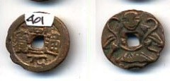 A Zhouyuan Tongbao (周元通寶) charm or amulet from Scott Semans.